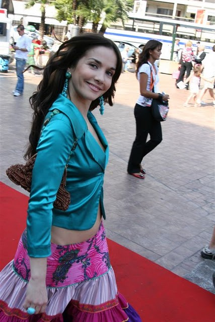 Natalia Oreiero at Cannes in 2007.